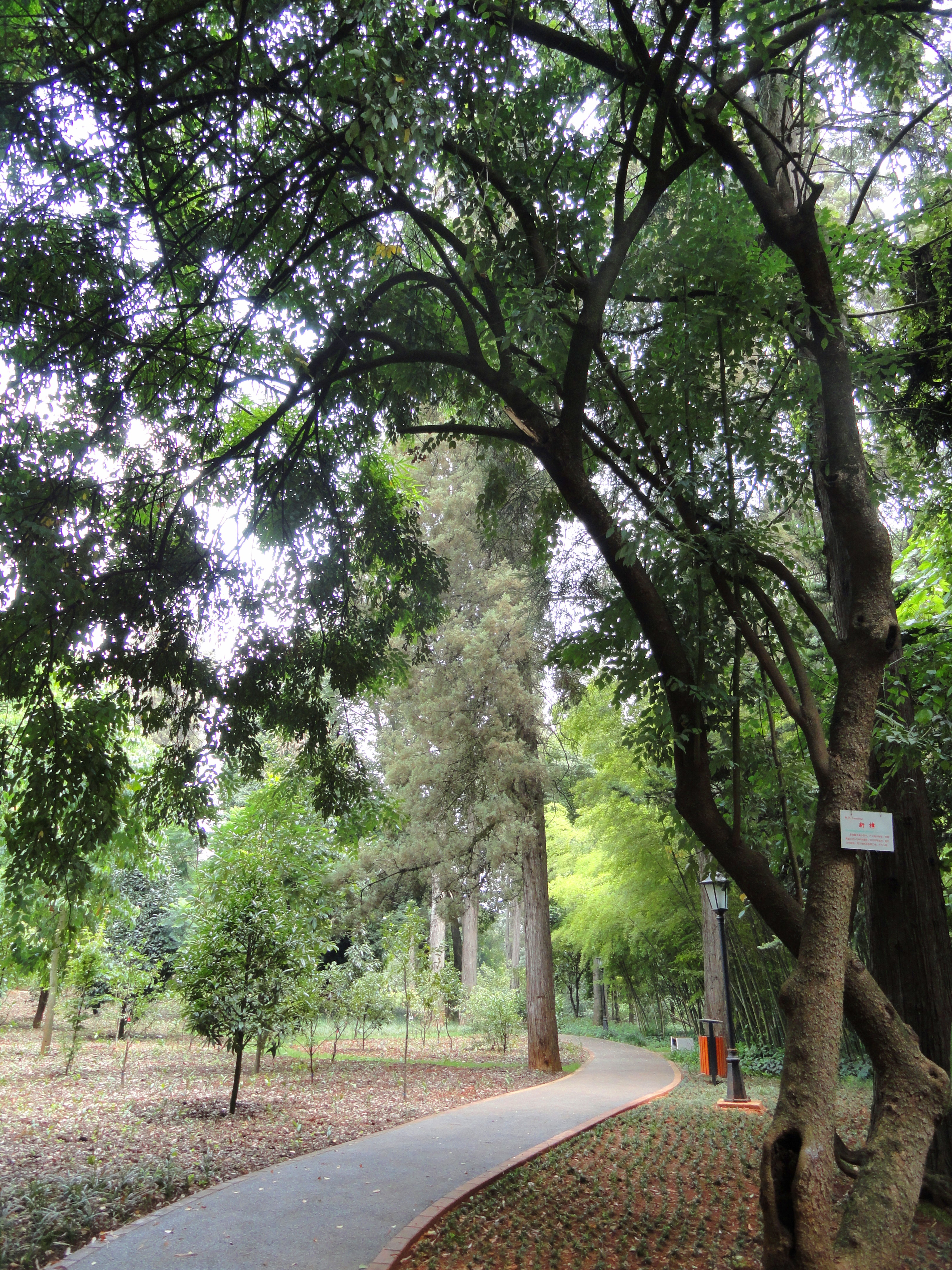 Plant specimen in the Kunming Botanical Garden, Kunming, Yunnan, China.